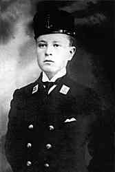 A student of the Mekteb-i Bahriye Nazim Hikmet